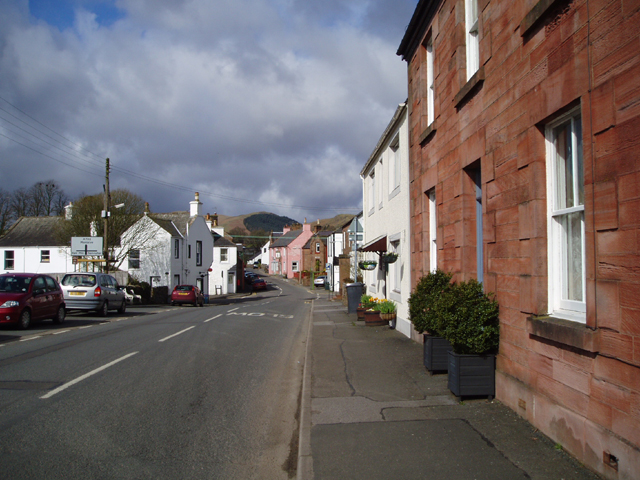 The village of Penpont in Dumfries and Galloway